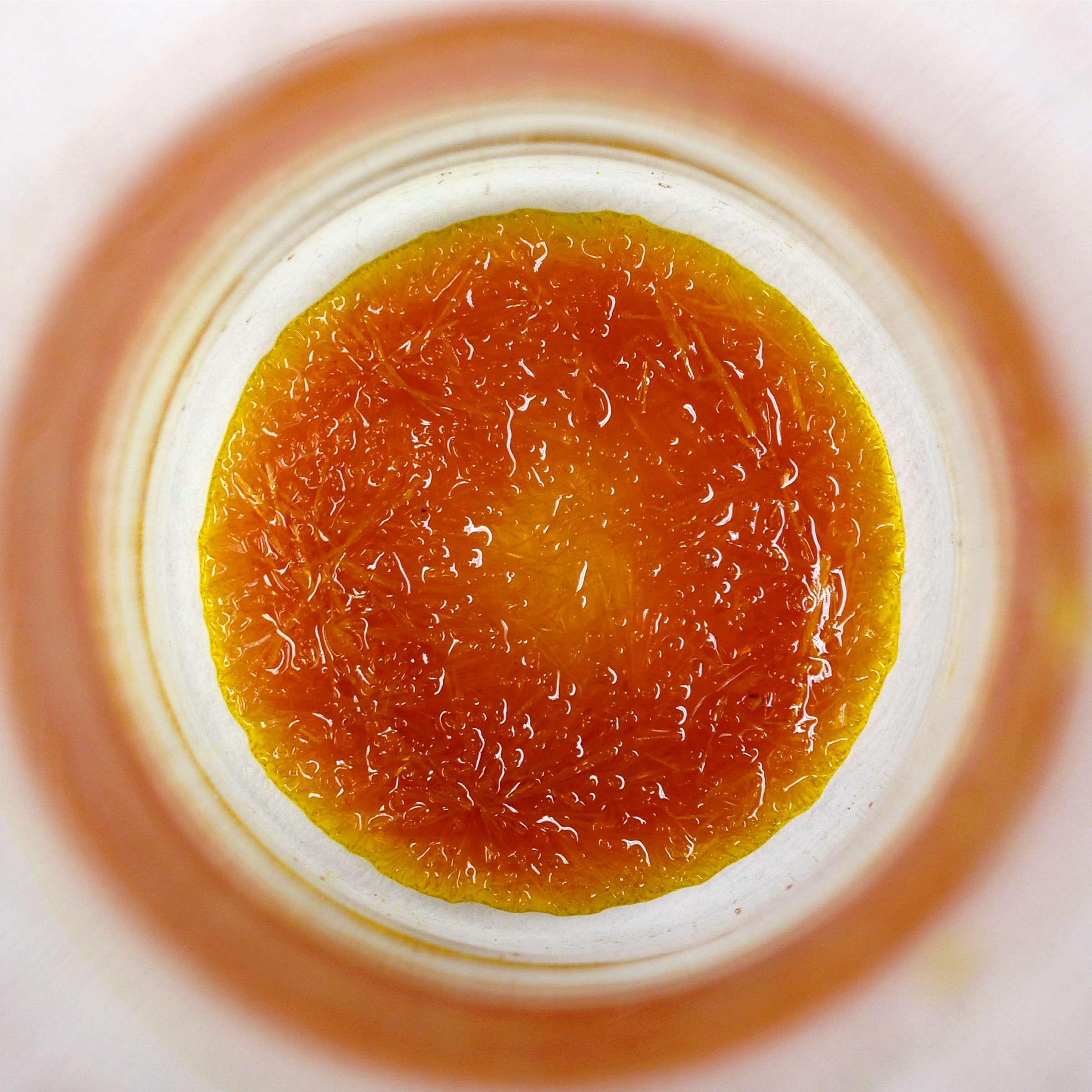 Recrystallization of p-nitroaniline